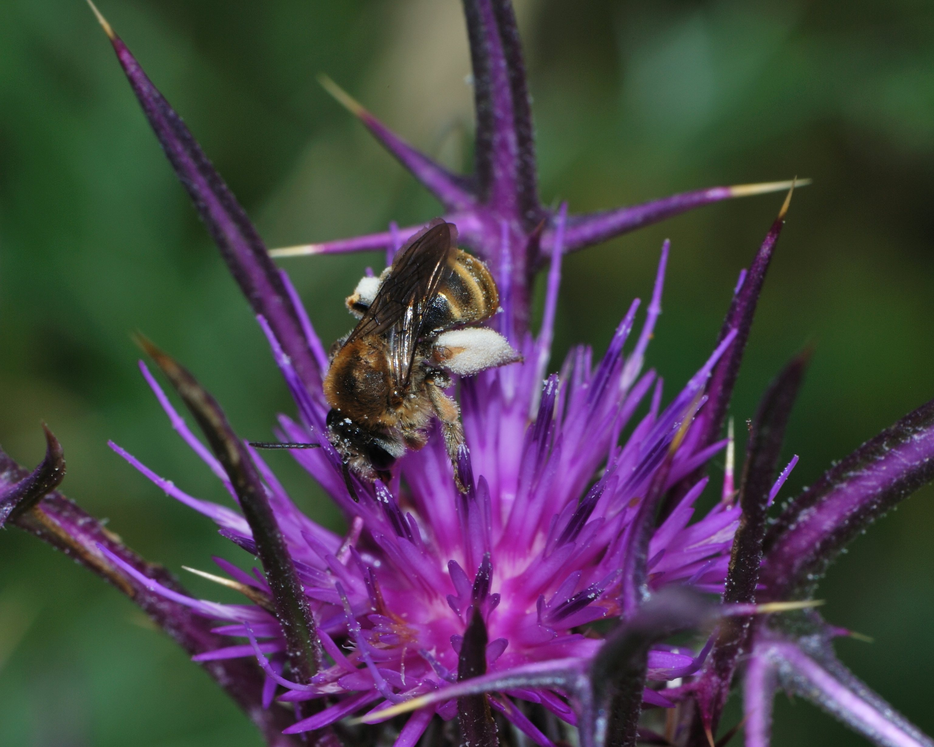 Eucera cinnamomea Alfken, 1935, female foraging on Notobasis syriaca, Mount Carmel, Israel, May 9, 2011.